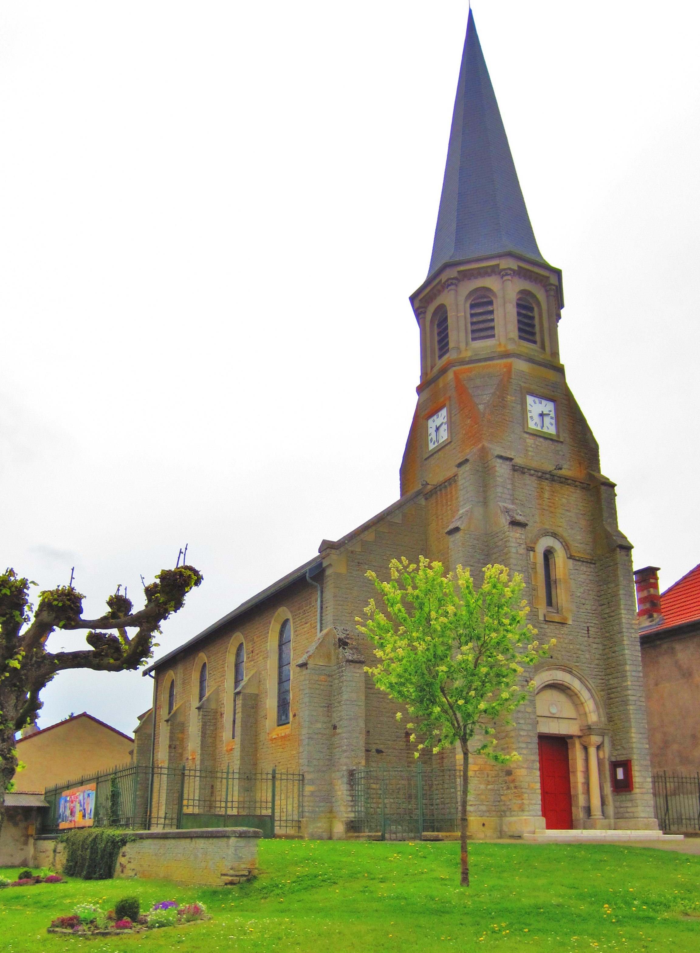 Ville Woevre church